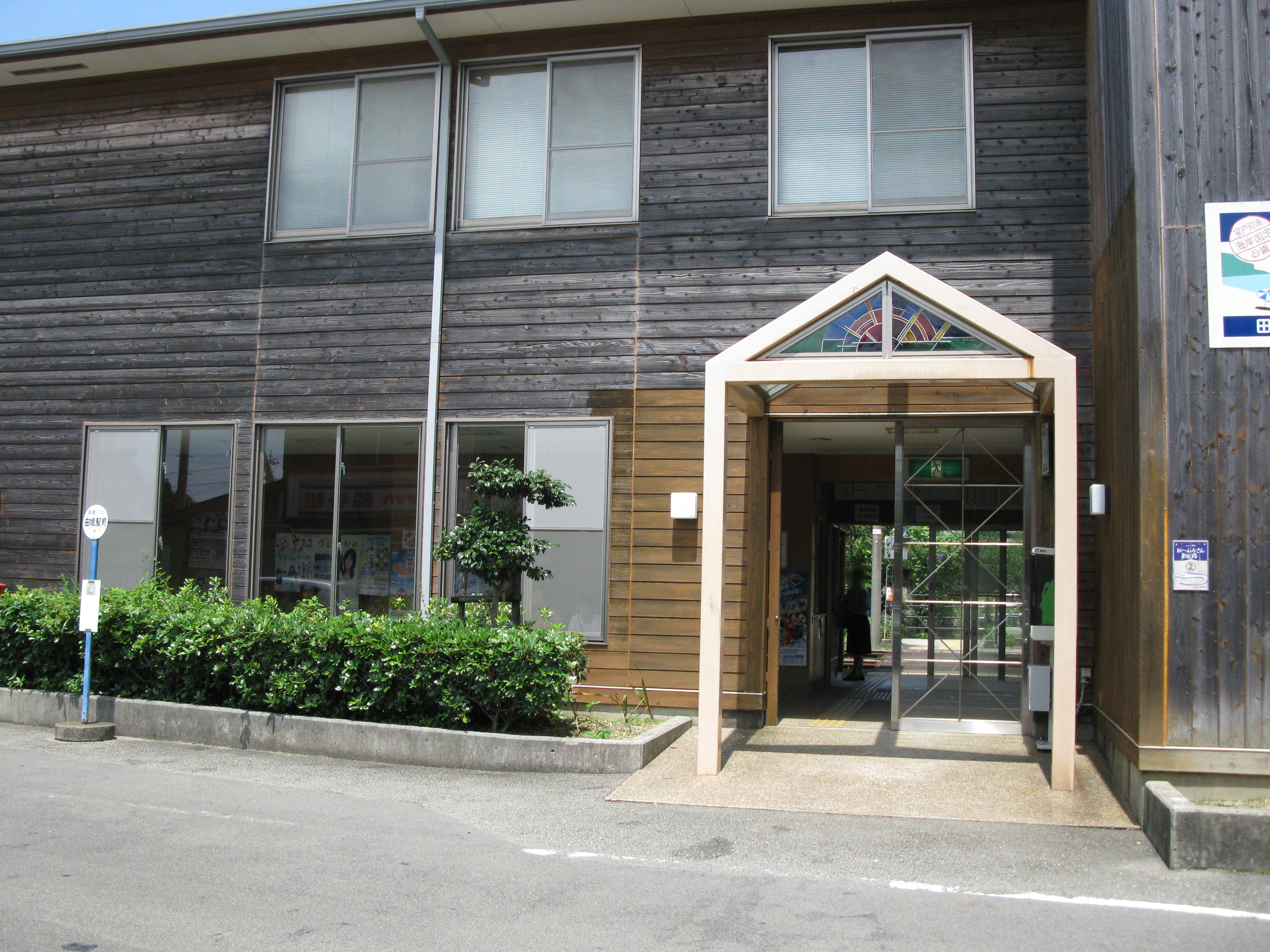 The entrance to Yuki Station on the Shikoku Railway(JR Shikoku) Mugi Line in Minami town, Tokushima prefecture, Japan